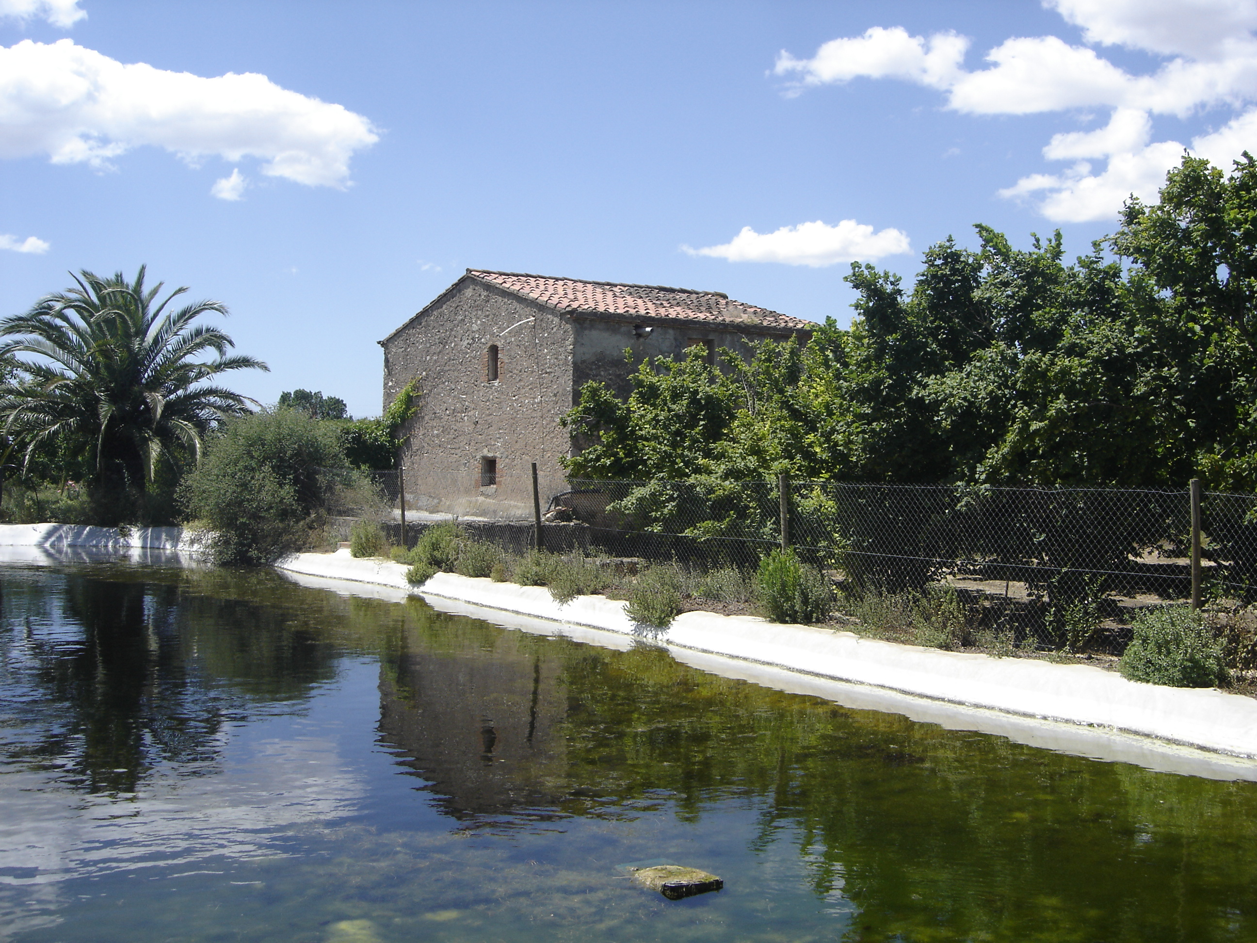 Mas de Perrillo at El Rourell.